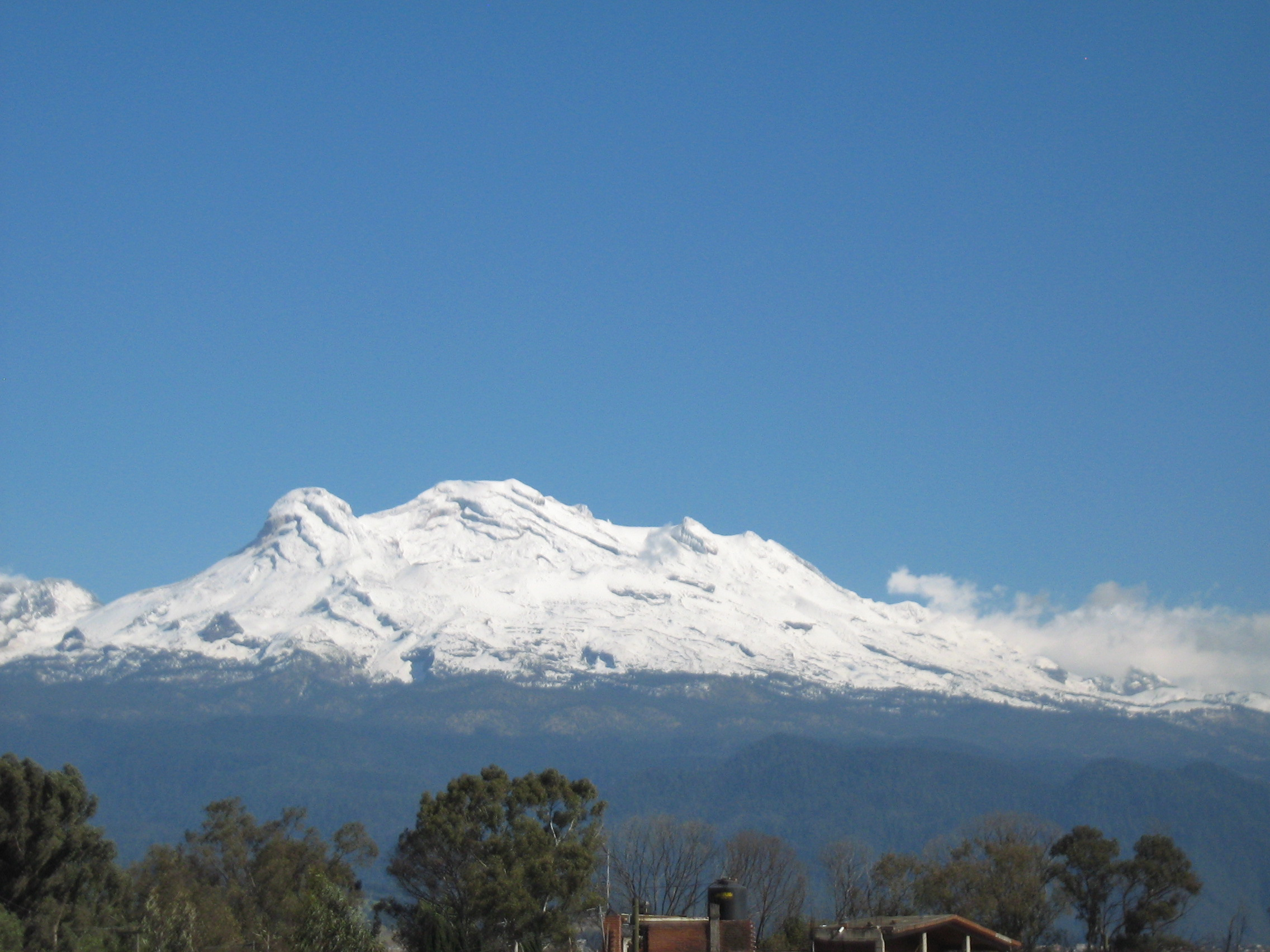 Iztacihuatl (Sleepy woman) shoot from valle de Chalco